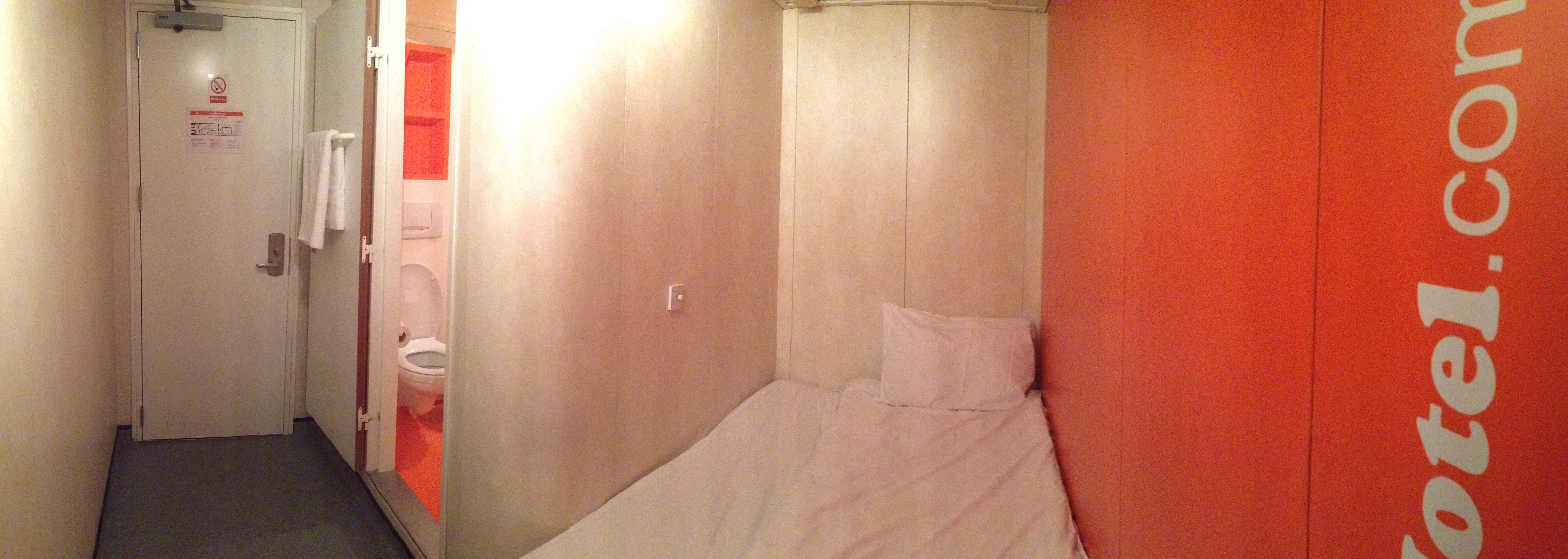 EasyHotel London South Kensington room